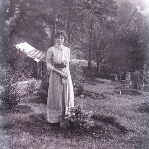 Suffragette Gladice Keevil 1910 picture. Taken by Linley Blathwayt at Eagle House near Batheaston. Linley died in 1919